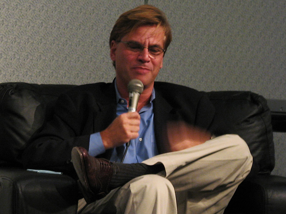 The West Wing creator Aaron Sorkin He was the only celebrity screenwriter to interview a fellow guest.